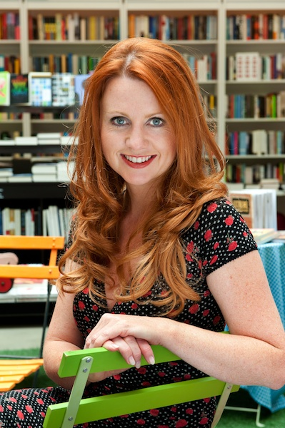 Foto made by DANN